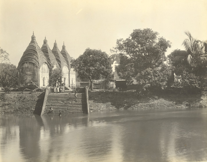 Dhakeshwari Temple (1904). Photograph taken by Fritz Kapp in 1904 of a temple in Dacca (now Dhaka), part of an album of 30 prints from the Curzon Collection.